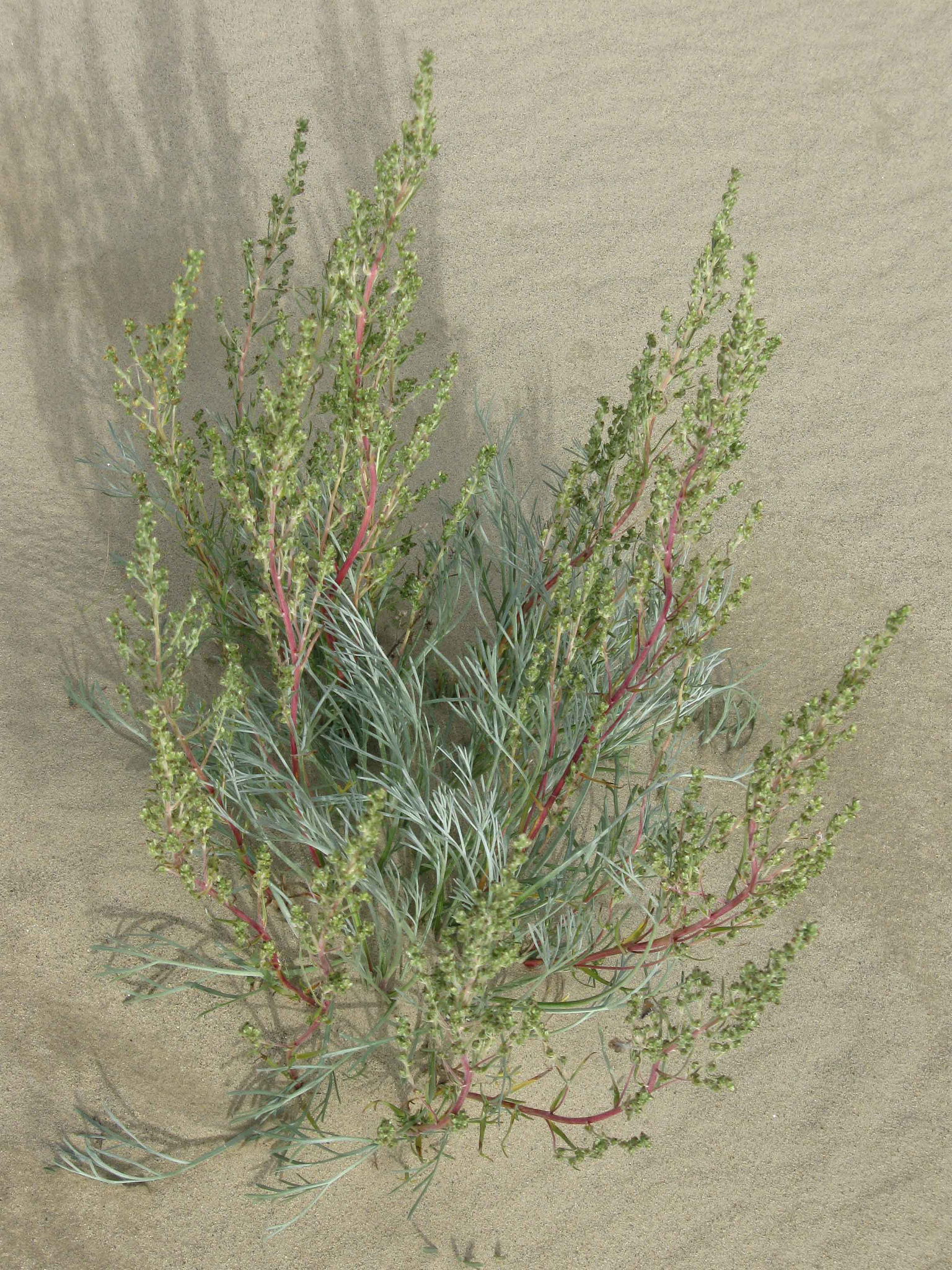 Artemisia borealis in Great Kobuk Sand Dunes